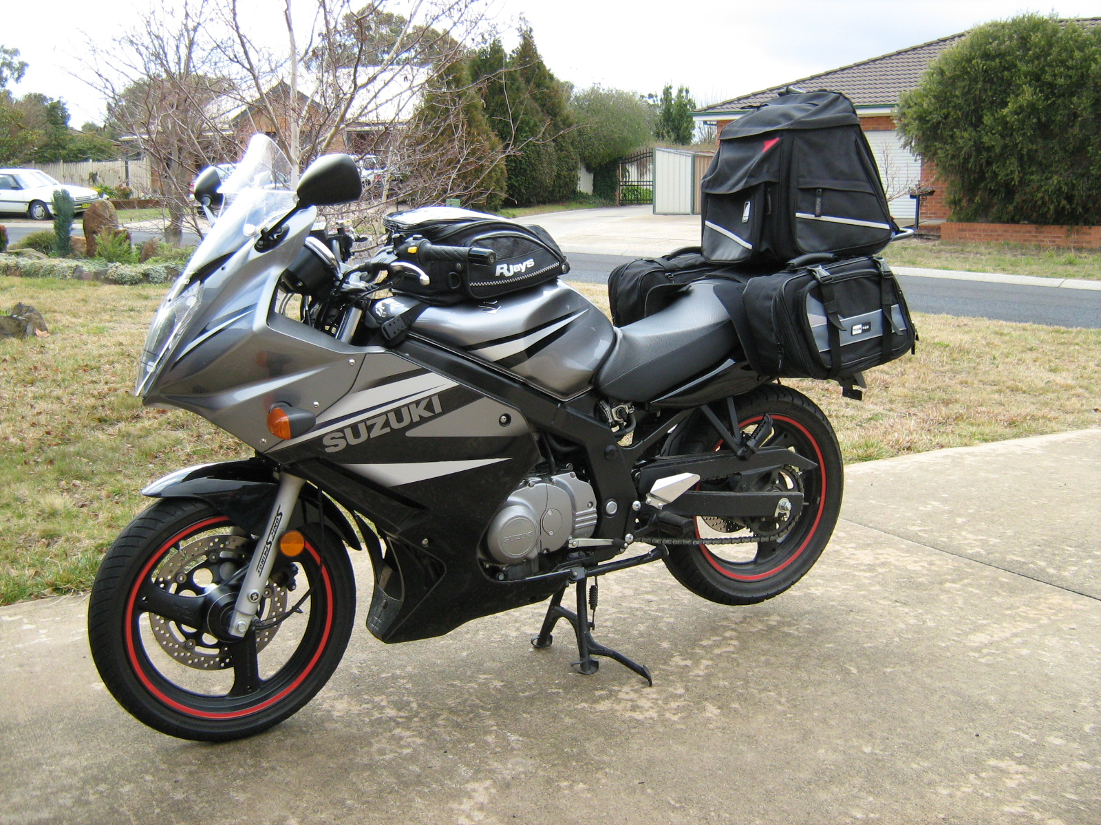 2007 Suzuki GS500F with full touring kit